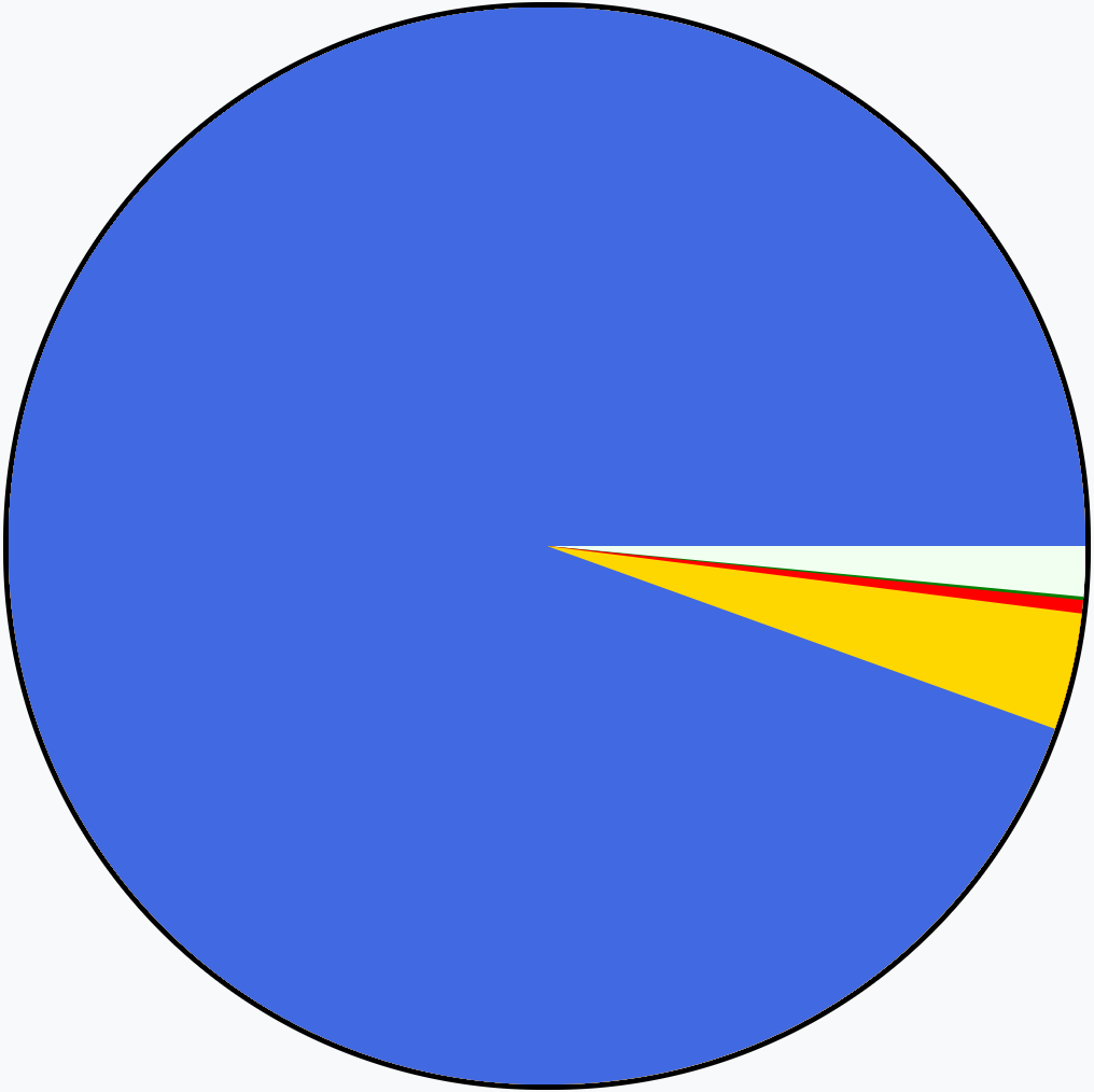 Religious affiliation in Nazi Germany according to the 17 May 1939 census. Protestant or Catholic church members (94.5%) Gottgläubig (3.5%) Jewish (0.4%) Other religions (0.1%) Irreligious (1.5%)